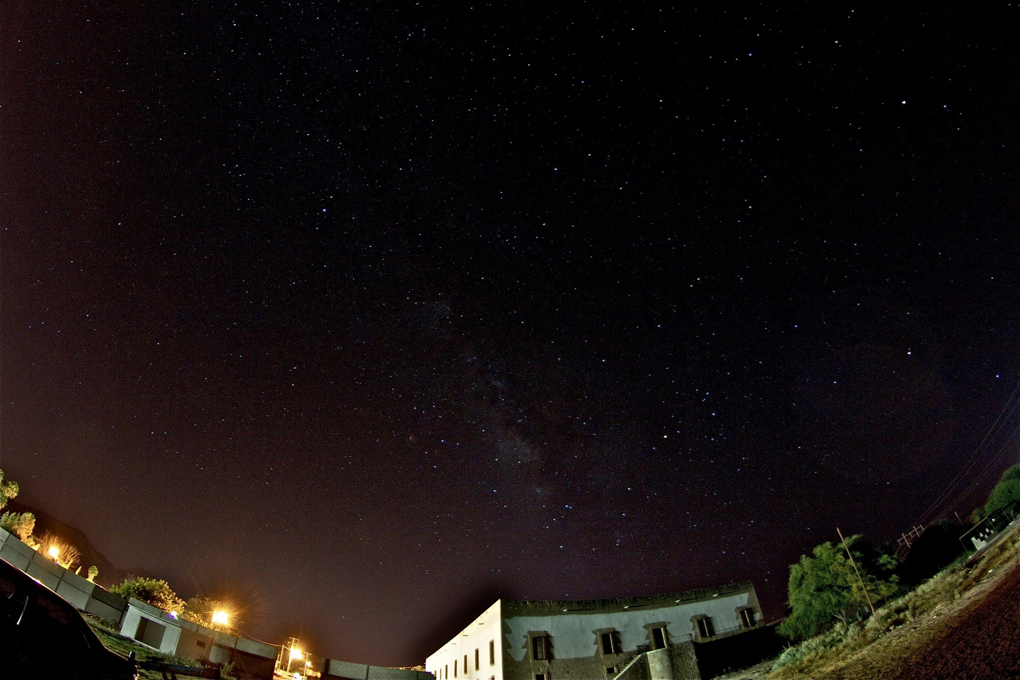 Mexican Farm, Lerdo, Durango, México, Mexico